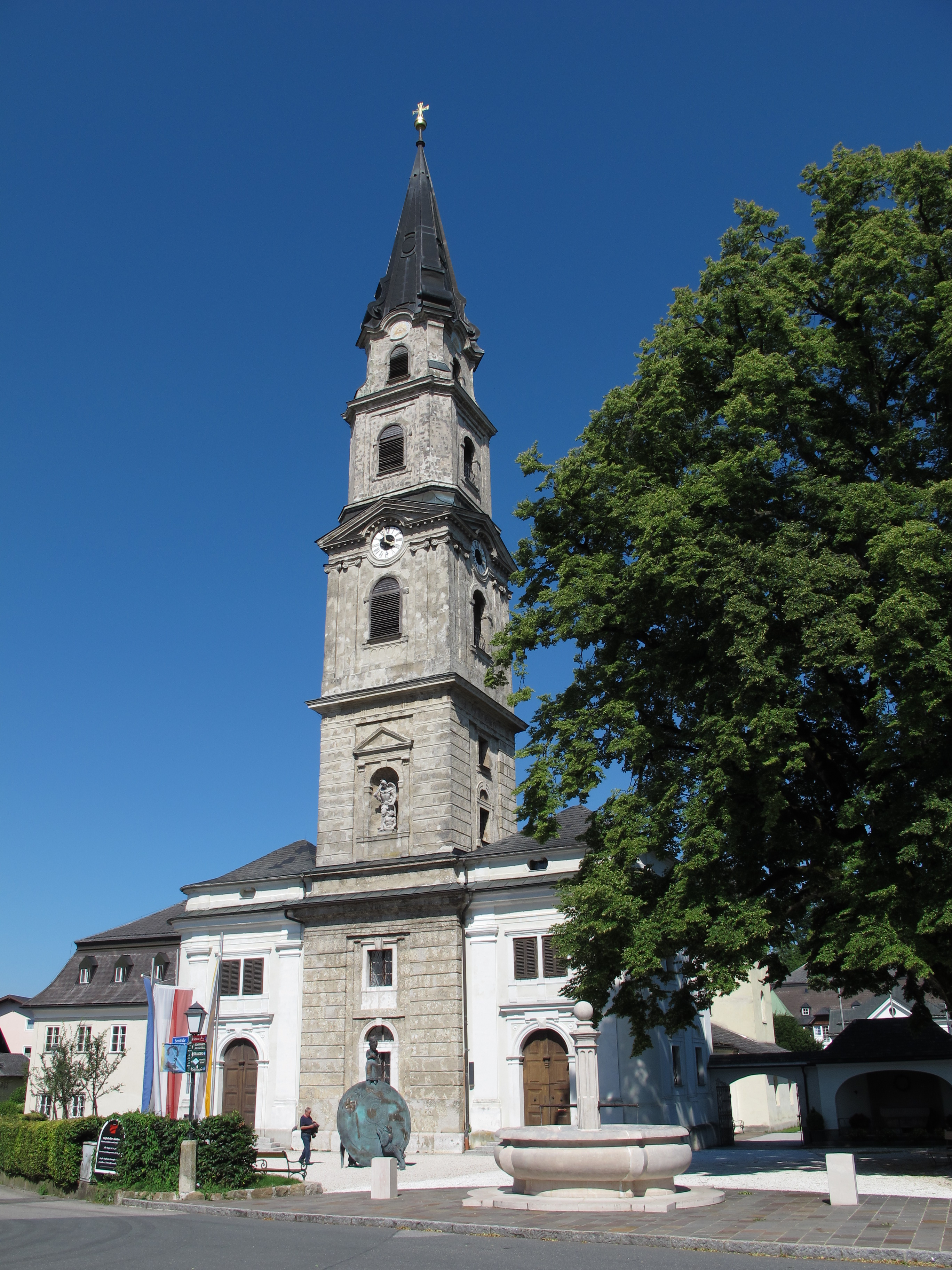 Stiftskirche Mattsee